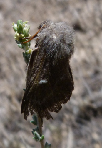 Near El Mas de Bondia, Lleida, Catalonia